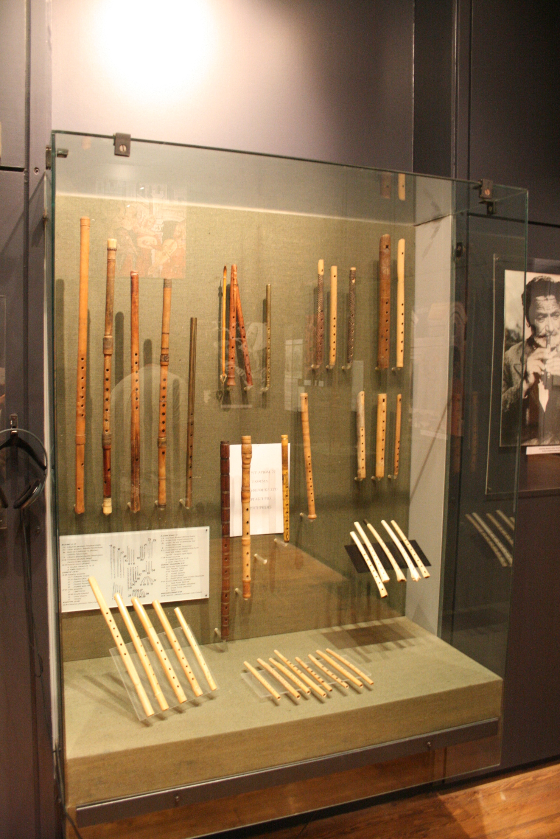 Different types of Greek flutes in the Museum of Greek Folk Instruments in Athens